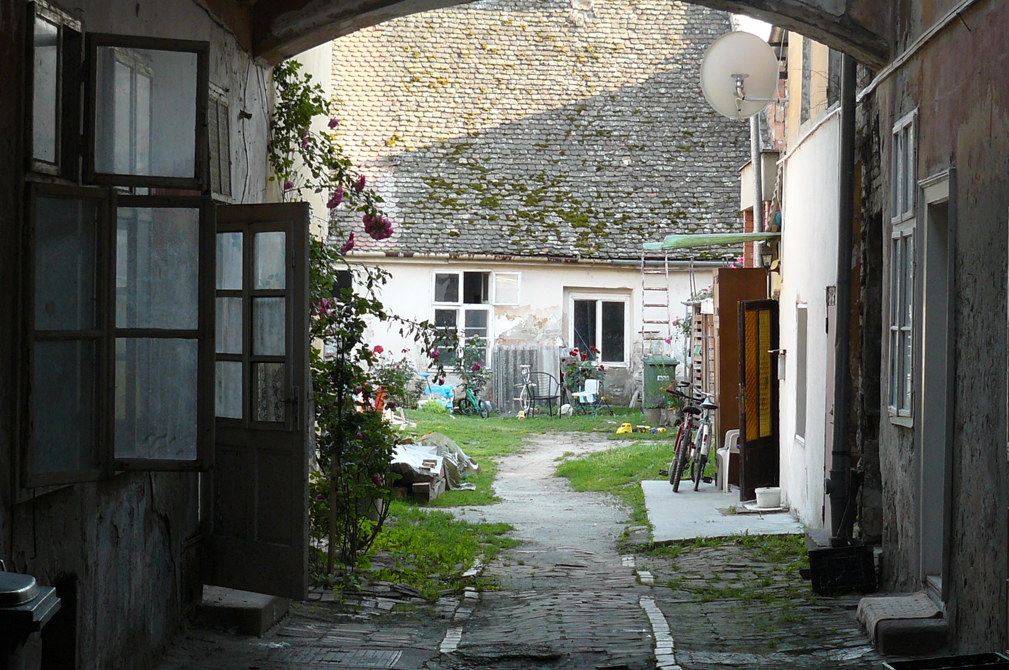 Old Town in Osijek.